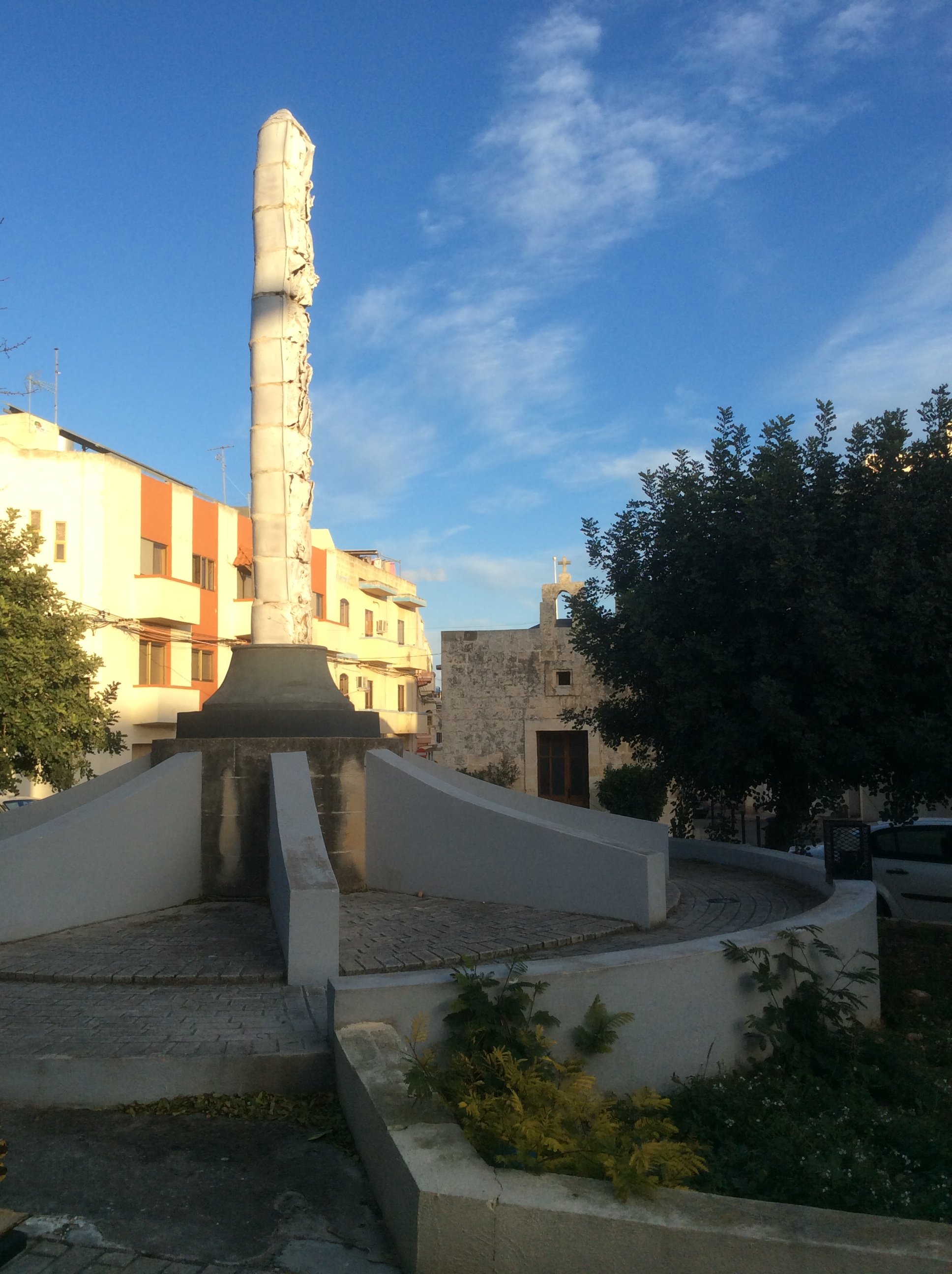 Kolonna Eterna and Margaret Chapel